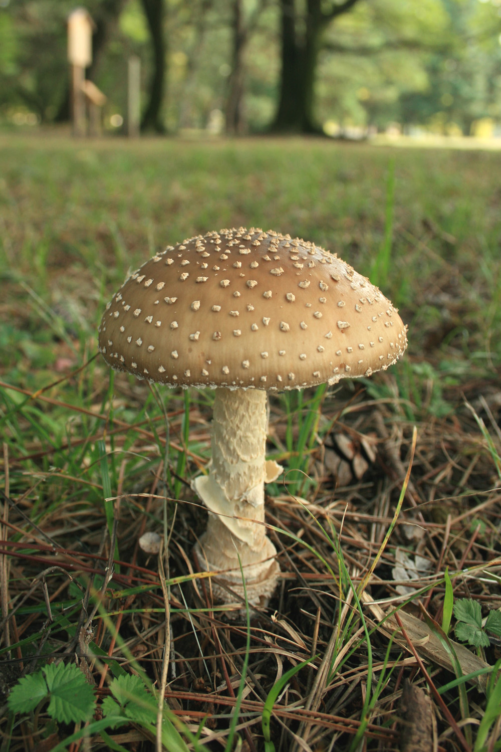 European Panther (Amanita pantherina)